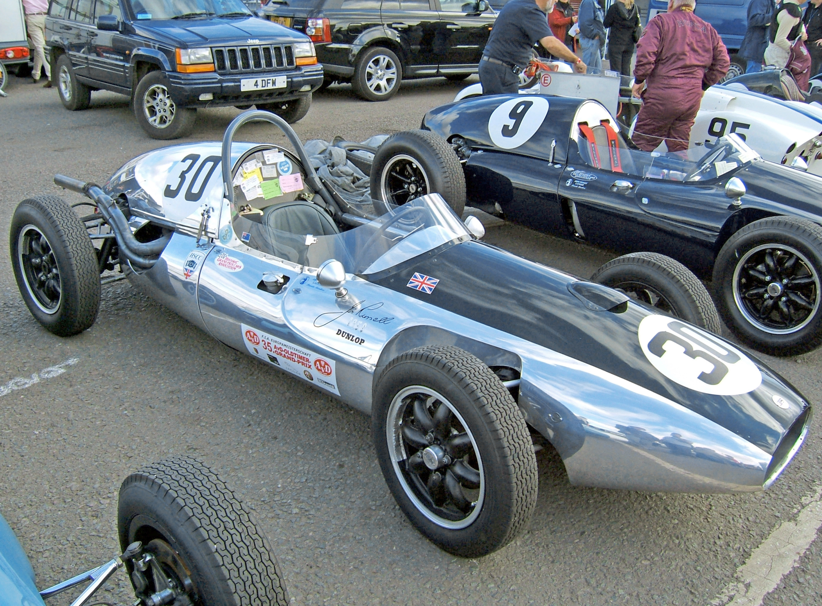 An ex-Jim Russell Cooper T45, waiting in the paddock of the VSCC SeeRed race meeting, Donington Park, September 2007.